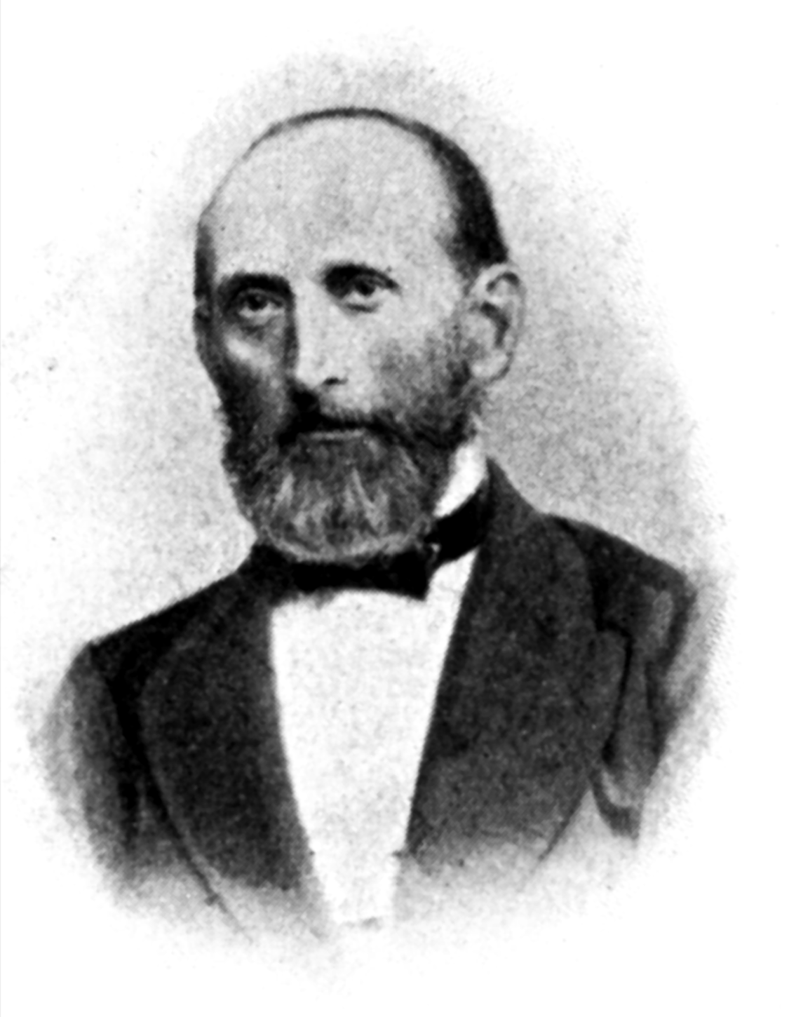 Aloys Constantin Conrad Gustav Veit (1824-1903), German gynaecologist and obstetrician